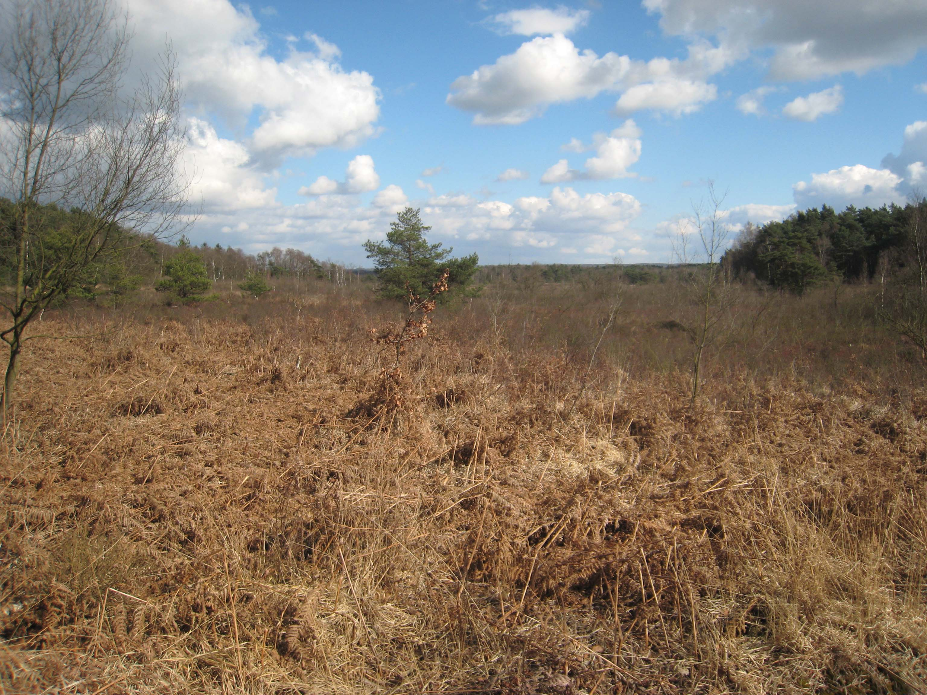 Heathland in the Hoge Kempen National Park